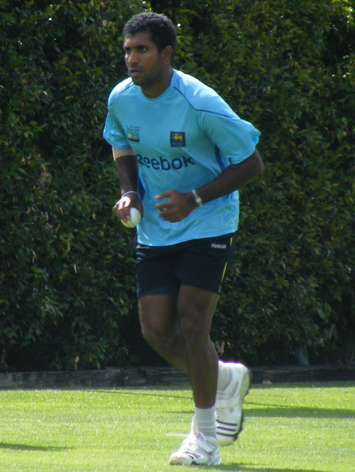 October 2010 at the Sydney Cricket Ground.